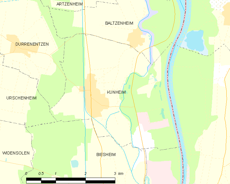 Map of French municipality